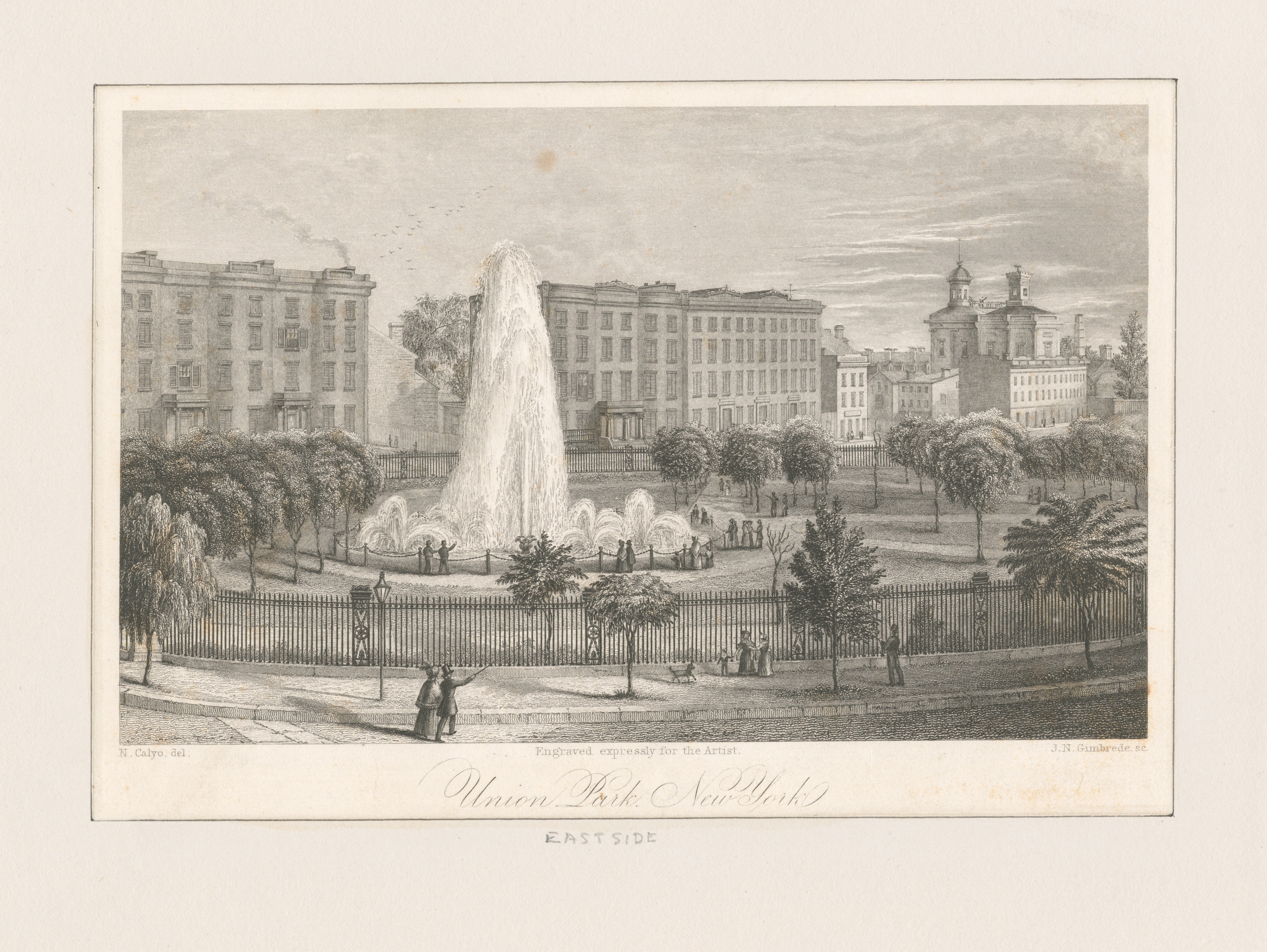 Includes photographic reproductions. Printmakers include Alexander Anderson, W.J. Bennett, C.G. Childs, A.J. Davis, A.B. Durand, Eliza Greatorex, George Hayward, John Rodgers & Imbert's Lithographic Office. Title from Calendar of Emmet Collection. EM11347 Statement of responsibility : J.N. Gimbrede